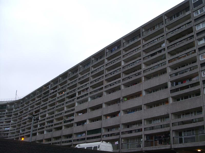 Taken and donated by user:Guinnog